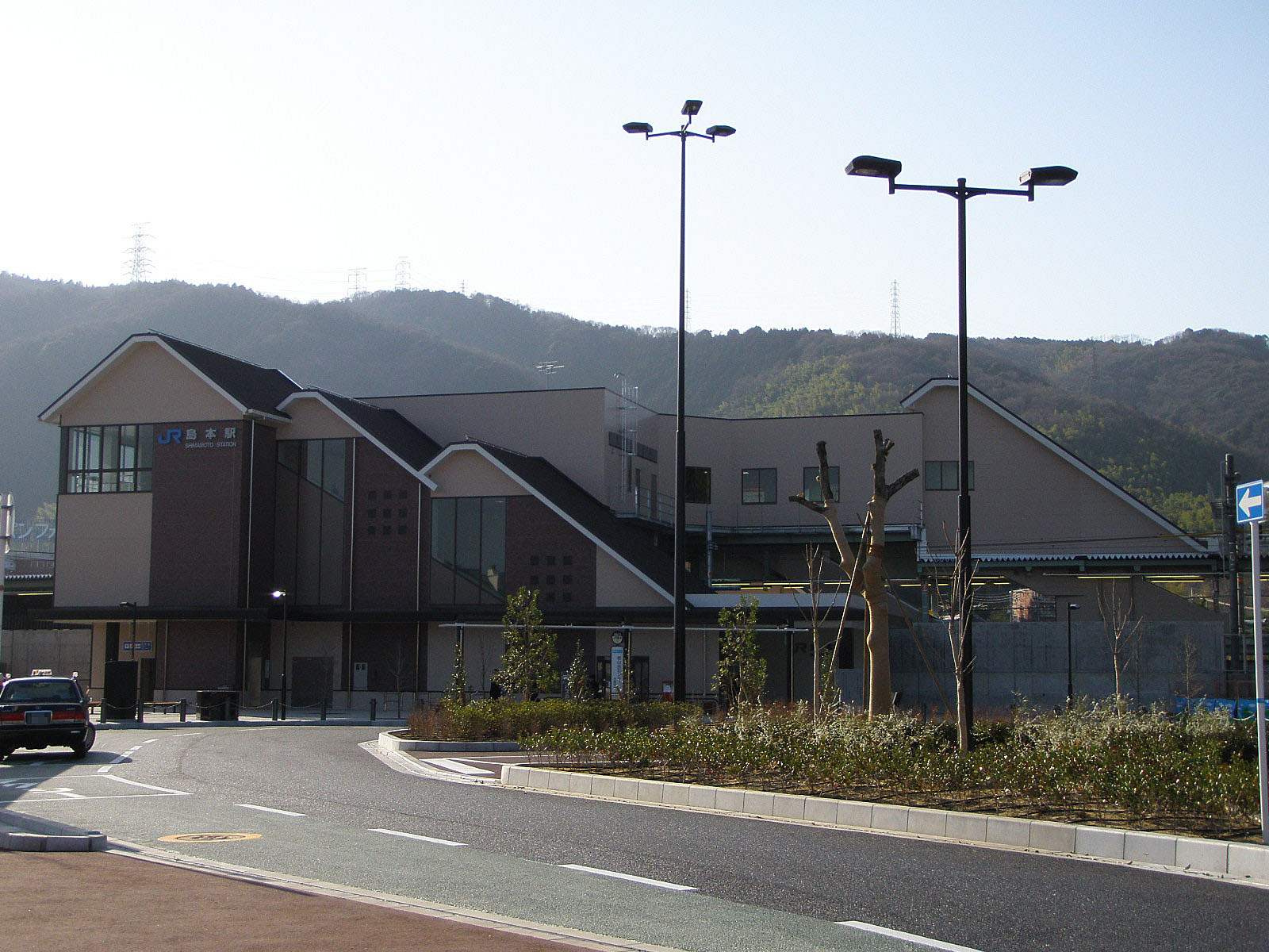 West Japan Railway Tōkaidō Main Line（JR Kyōto Line） Shimamoto Station Building East Gate